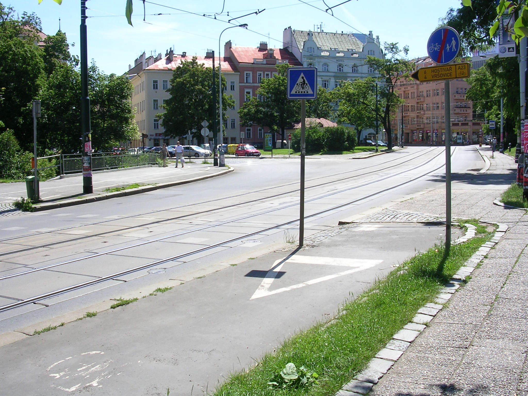 Nusle, Prague, the Czech Republic. Ostrčilovo náměstí and a cyclist crossing.